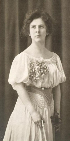 A young white woman, standing. Visible in her hands are the bow and neck of a violin. She is wearing a white dress with an open neck and smocked waist.